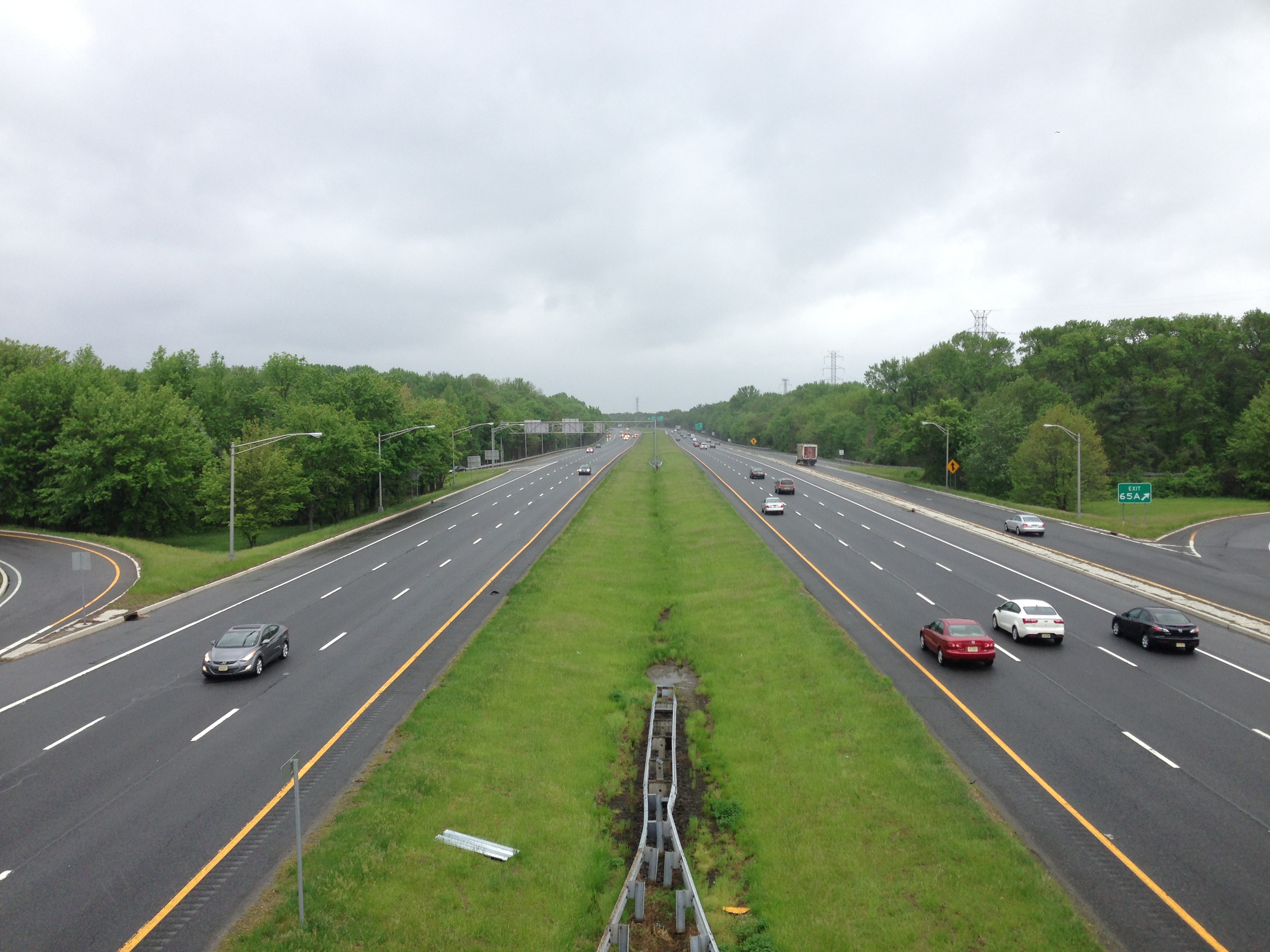 View south along Interstate 295 (Camden Freeway) from the overpass for Sloan Avenue (Mercer County Route 649) in Hamilton Township, Mercer County, New Jersey